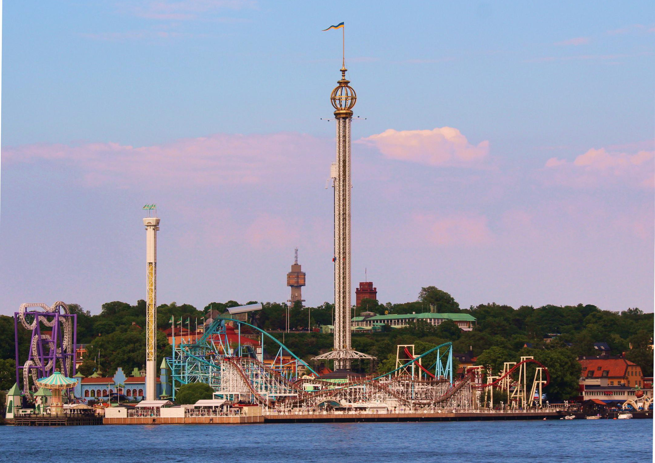 Amusement park Gröna Lund from the waterfront